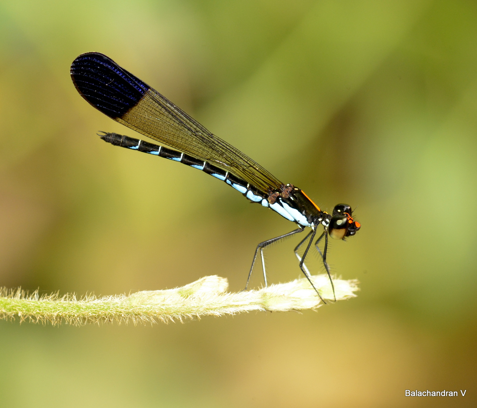 Calocypha laidlawi, Myristica Sapphire, is a damselfly in the family Chlorocyphidae